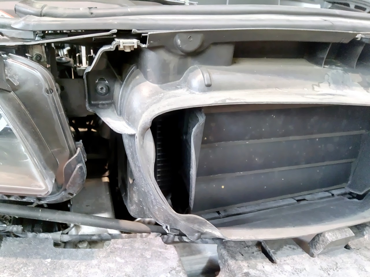 Car radiator equipped with Venetian blind system to improve the cooling system's regular operation.